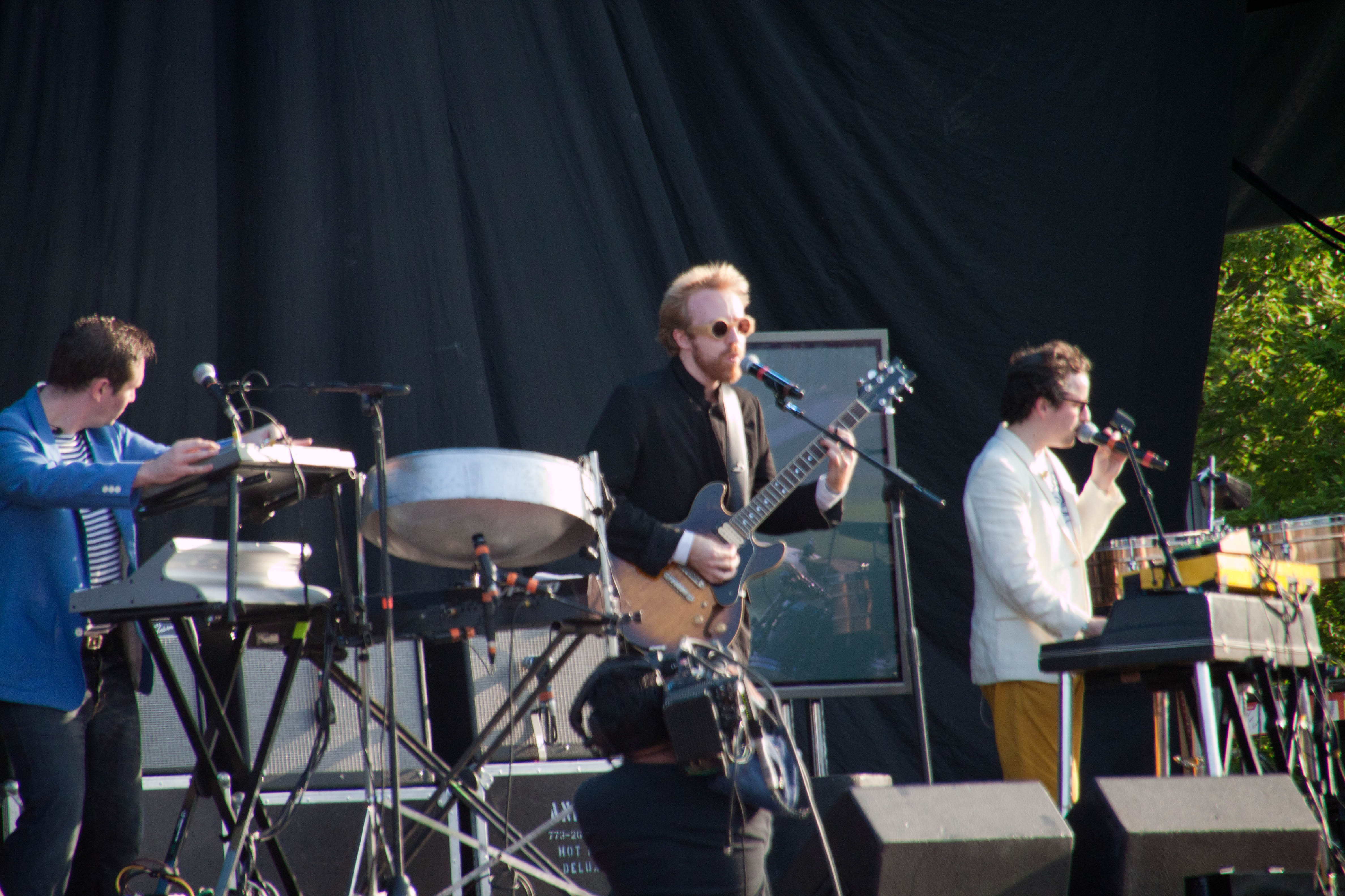 British band Hot Chip performing at Lollapalooza on August 6, 2010